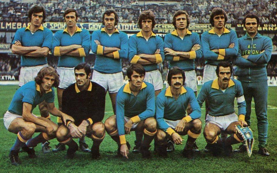 Verona, Marcantonio Bentegodi Stadium, October 14, 1973. A line-up of A.C. Hellas Verona took to the field in the home defeat versus Inter Milan (1-3), valid for the 2nd round of the Italian Championship 1973–74 Serie A. From left to right, standing: A. Bet, P. Sirena, R. Mazzanti, F. Nanni, R. Zaccarelli, B. Pace; crouched: G. Zigoni, G. Porrino, L. Luppi, S. Maddè, L. Mascalaito (captain).